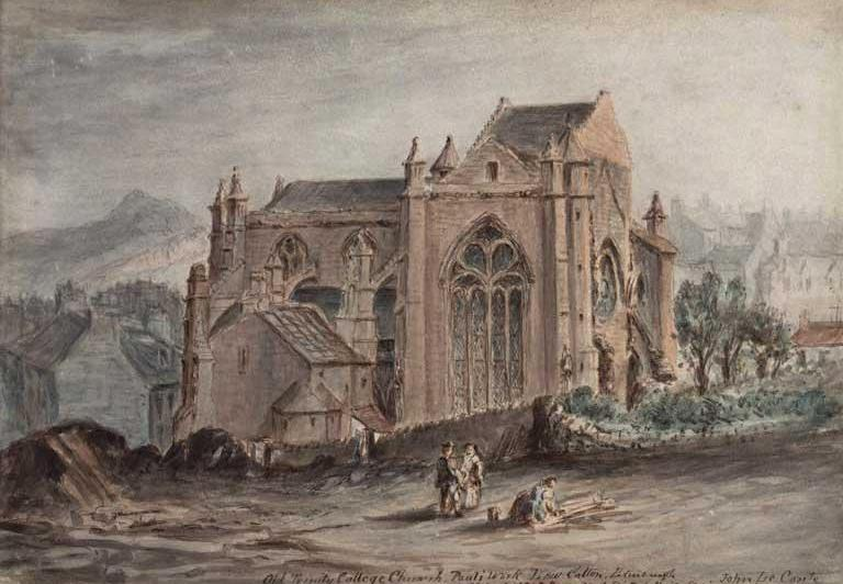 19th century watercolour of Trinity College Kirk, Edinburgh ; inscription reads "'Old Trinity Church, Paul's Work, Low Calton, Edinburgh John Le Conte Demolished 1847-8 for North British Railway Station."